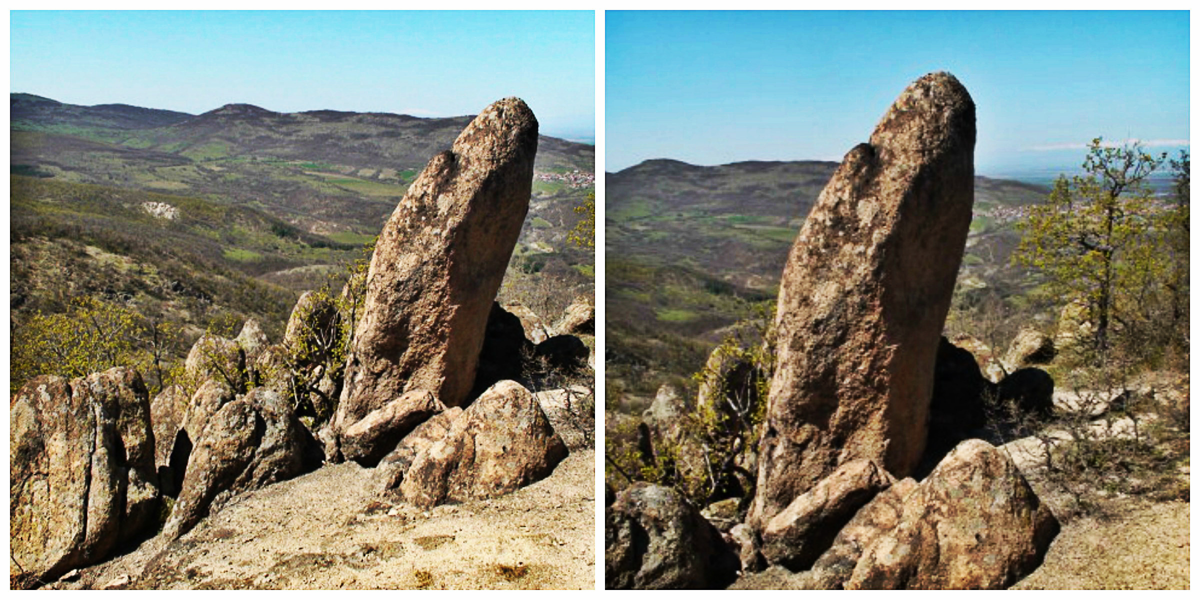 Menhirs_Golyamo_gradishte_Bryastovo_BG01